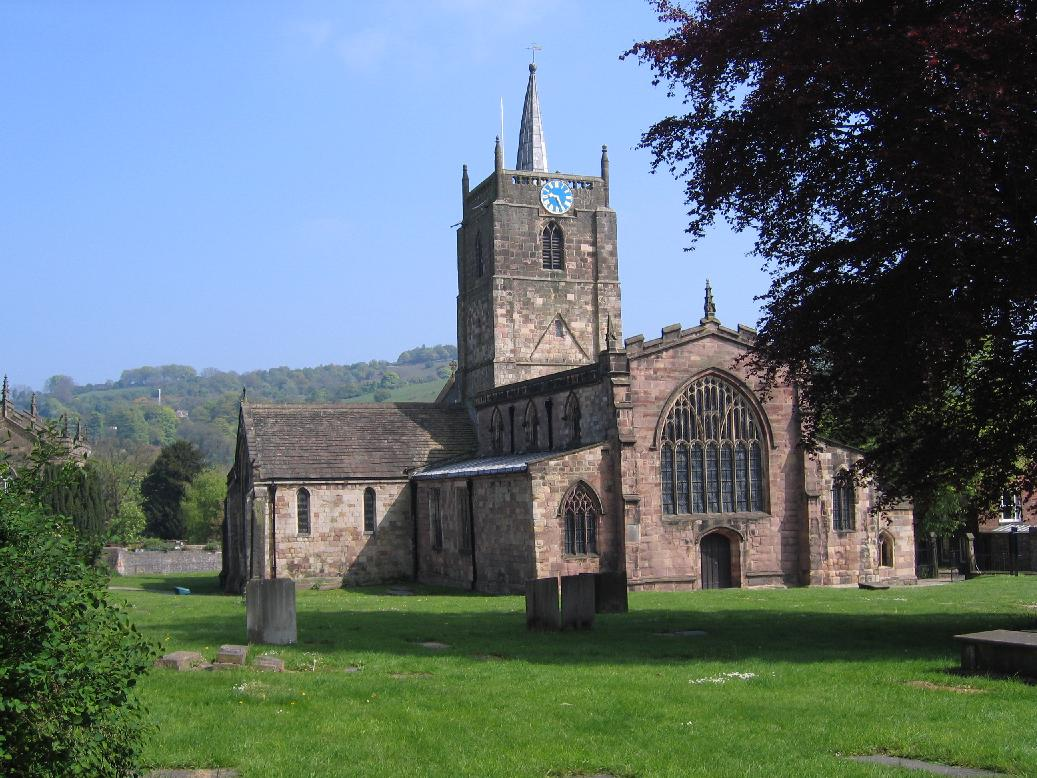 St Mary's Church, Wirksworth, Derbyshire. Taken mid-afternoon from the north west